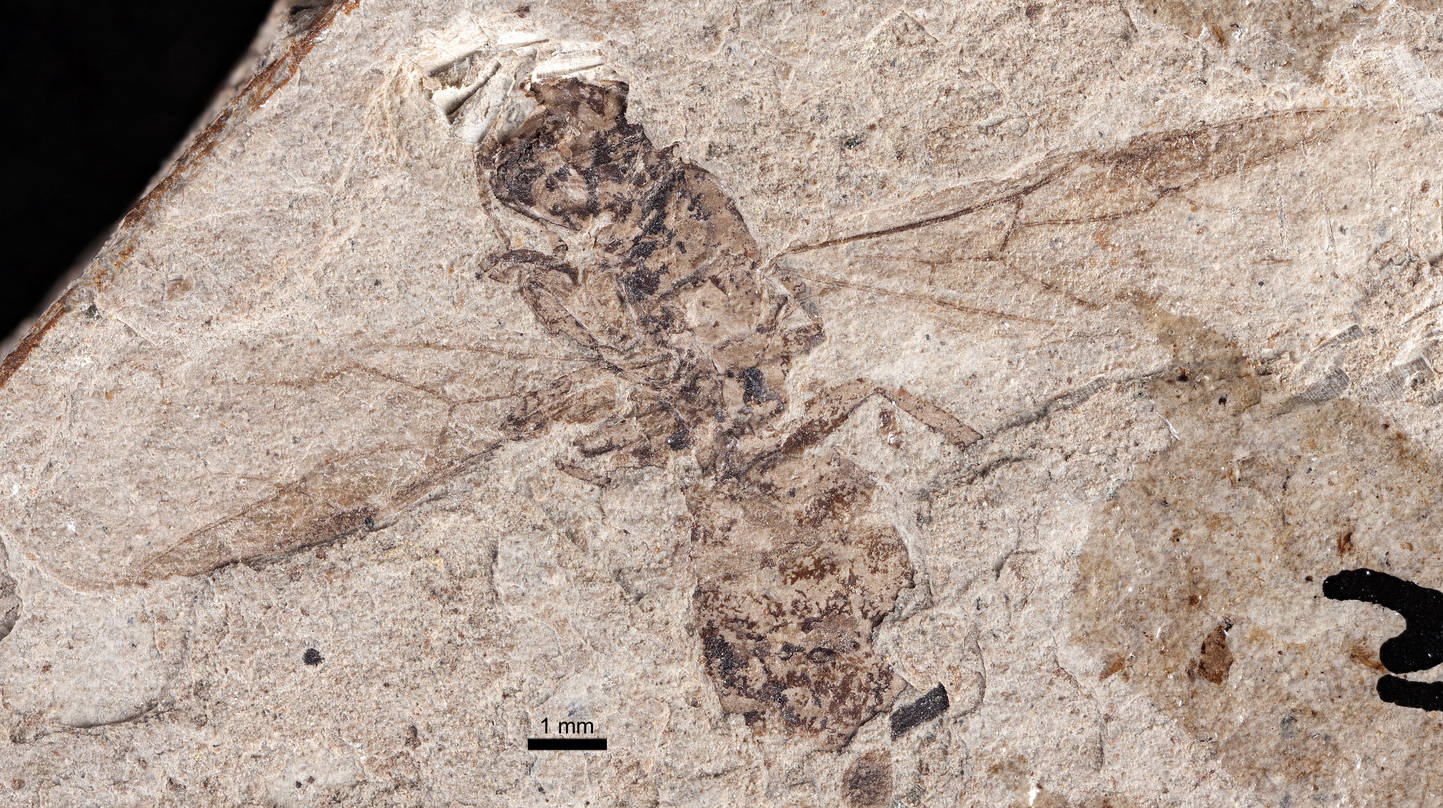 The Camponotites fuscipennis paratype queen. Chadronian, Late Eocene; Florissant Formation, Florissant, Colorado, U.S.A. University of Colorado Natural History Museum, Boulder, Colorado, U.S.A.; specimen UCM17015